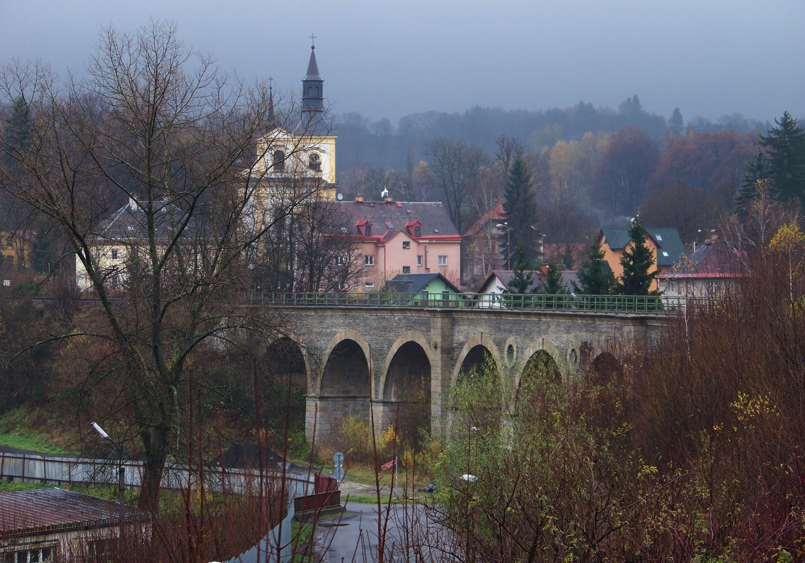 Rychnov u Jablonce nad Nisou, Jablonec nad Nisou District, Liberec Region, Czech Republic. A viaduct and Saint Wenceslaus Church, from the train station. - Google Maps - Google Earth